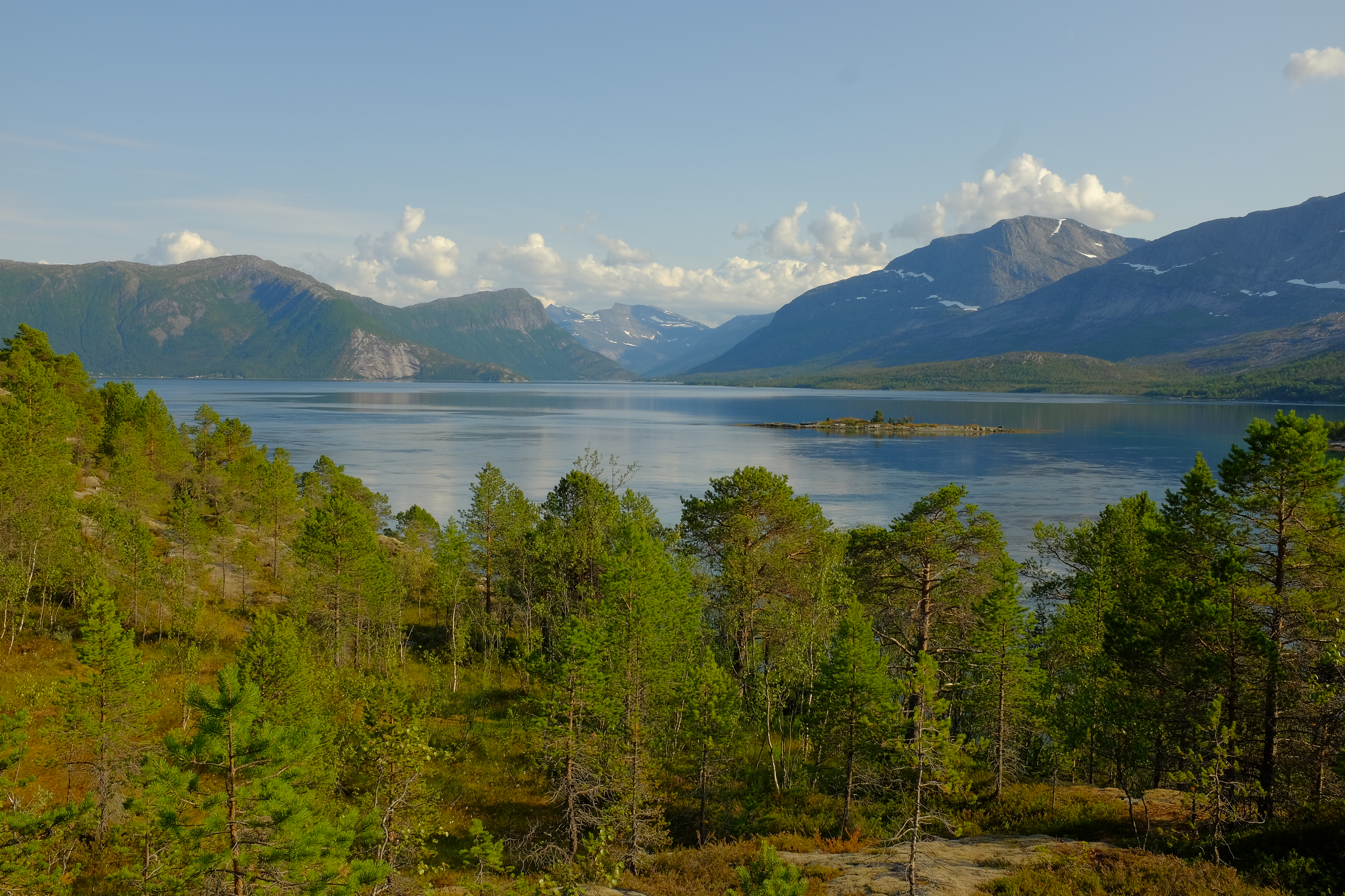 Efjorden (Lule Sami: Áhtávuodna) is a arm of the Ofotfjord in Ballangen municipality in Nordland